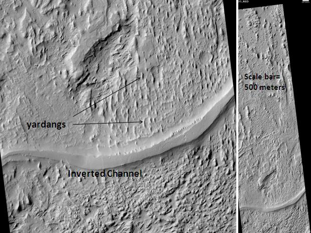 Aeolis Mensae Yardangs and inverted channel, as seen by hirise. Location is 6.3 degrees south latitude and 151.1 degrees east longitude. Image was taken by the Mars Reconnaissance Orbiter's HiRISE. The HiRISE camera was built by Ball Aerospace and Technology Corporation and is operated by the University of Arizona. Image courtesy NASA/JPL/University of Arizona.